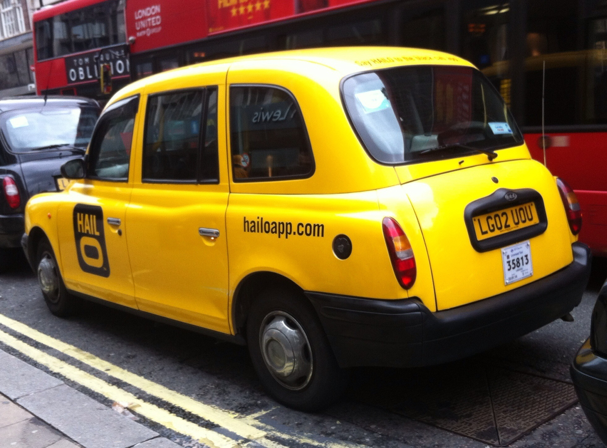 Hailo taxi parked in London